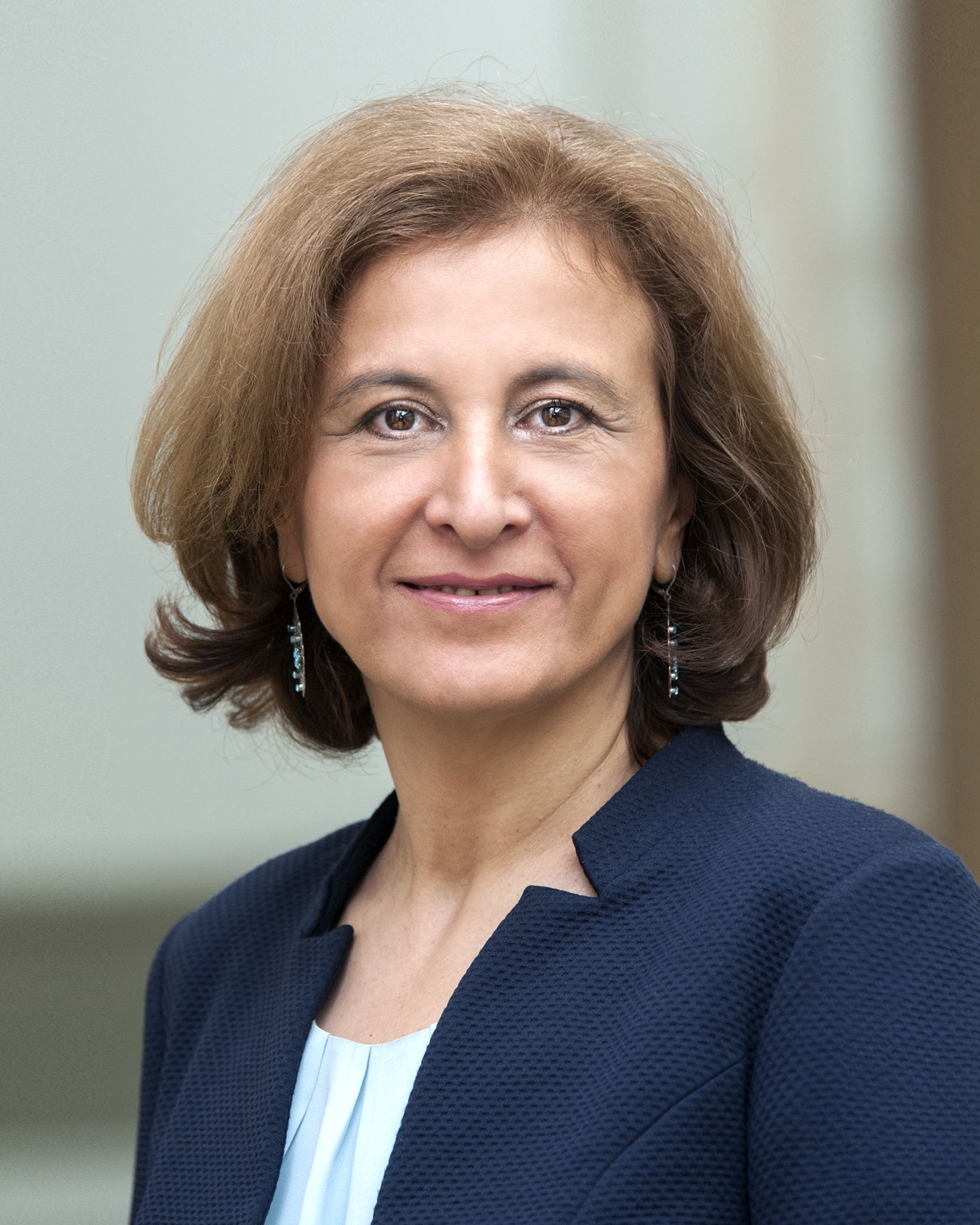 Canan Bayram 2017, Member of the Abgeordnetenhauses of Berlin